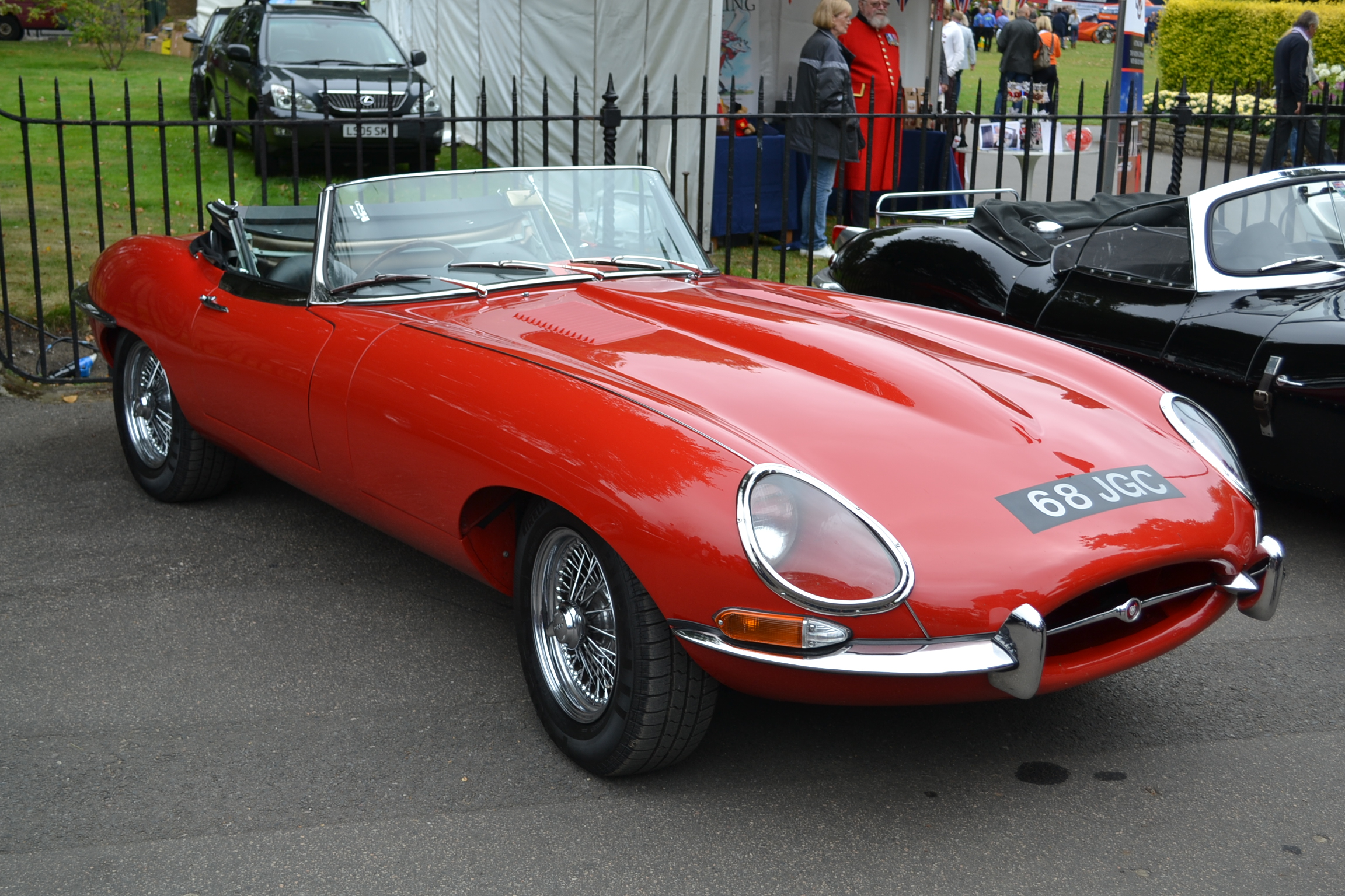 Chelsea Auto Legends 2012